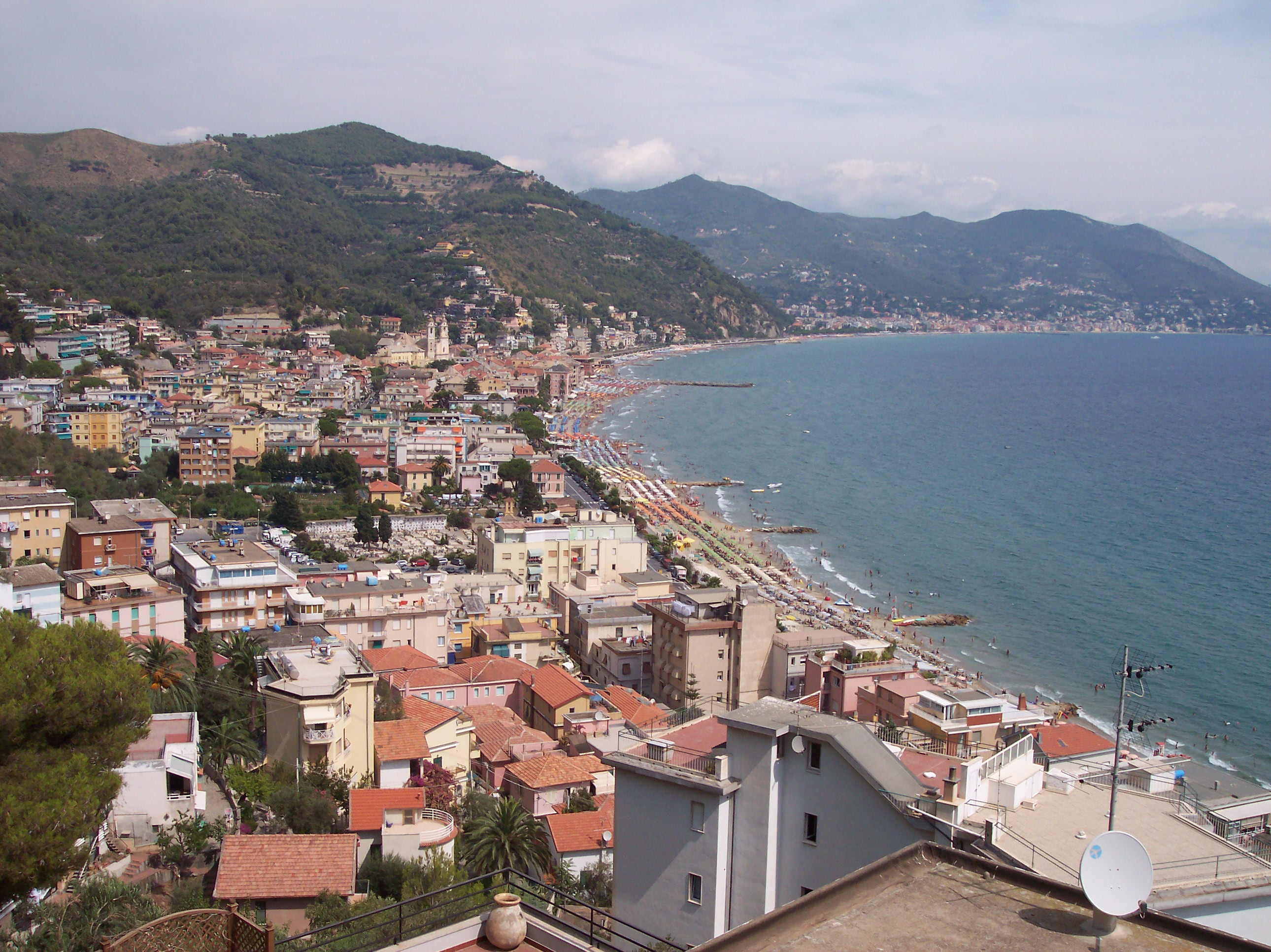 General view of Laigueglia (Savona, Liguria, Italy)